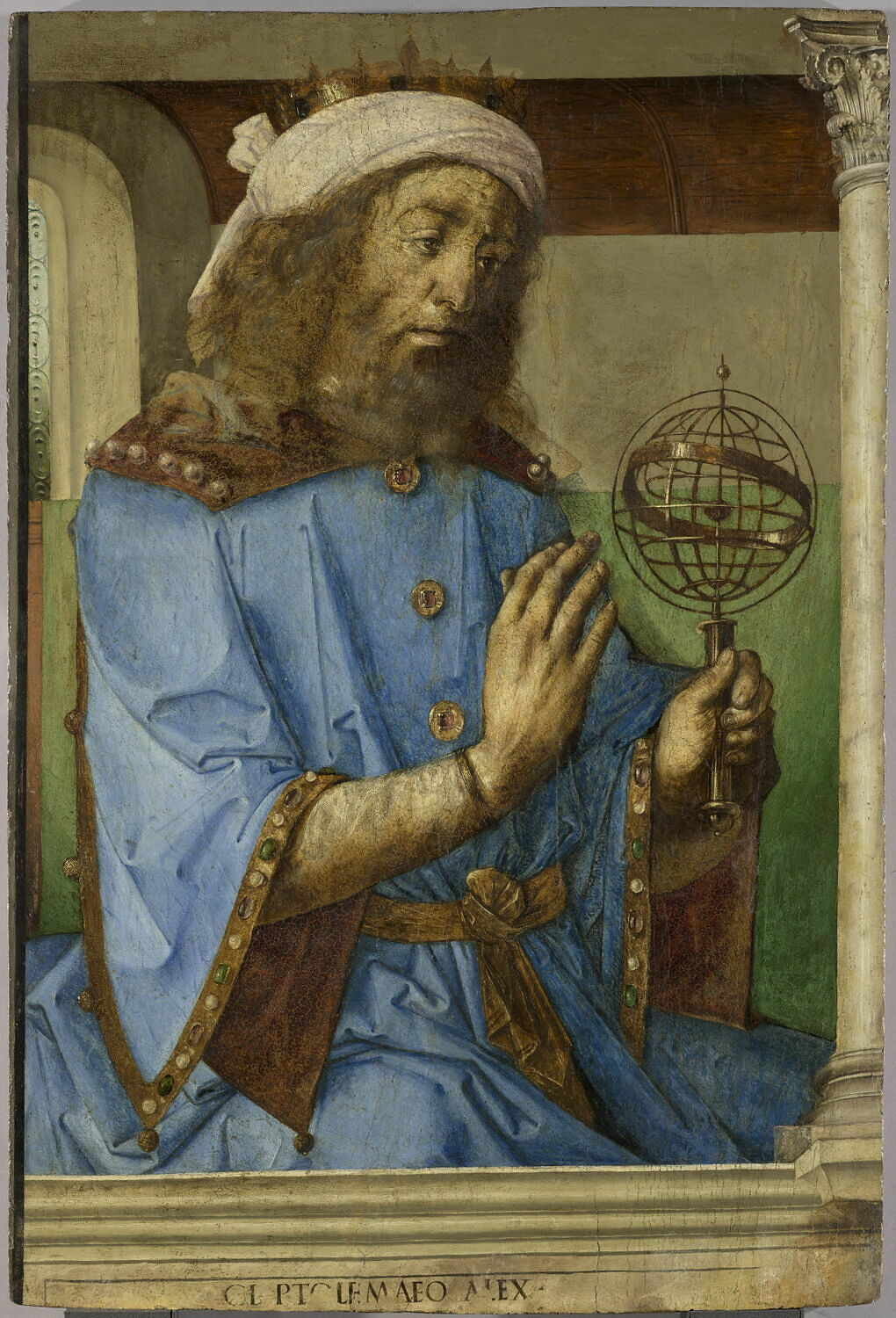 Ptolemy with a armillary sphere model. With a large version he claimed his solstice observations.